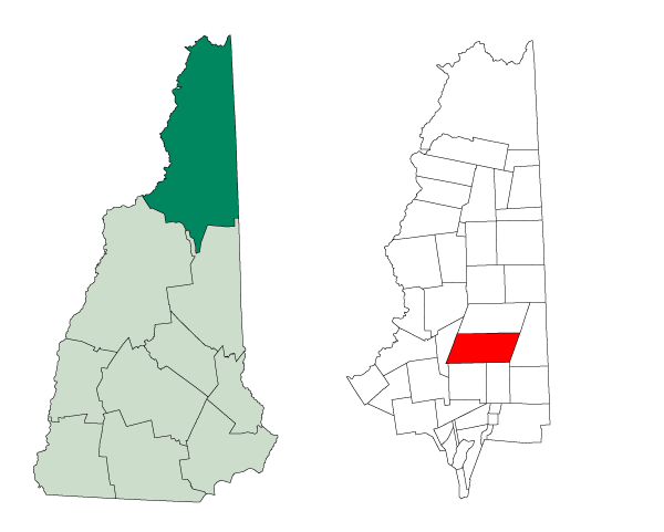 Map of a municipality in Coos County, New Hampshire